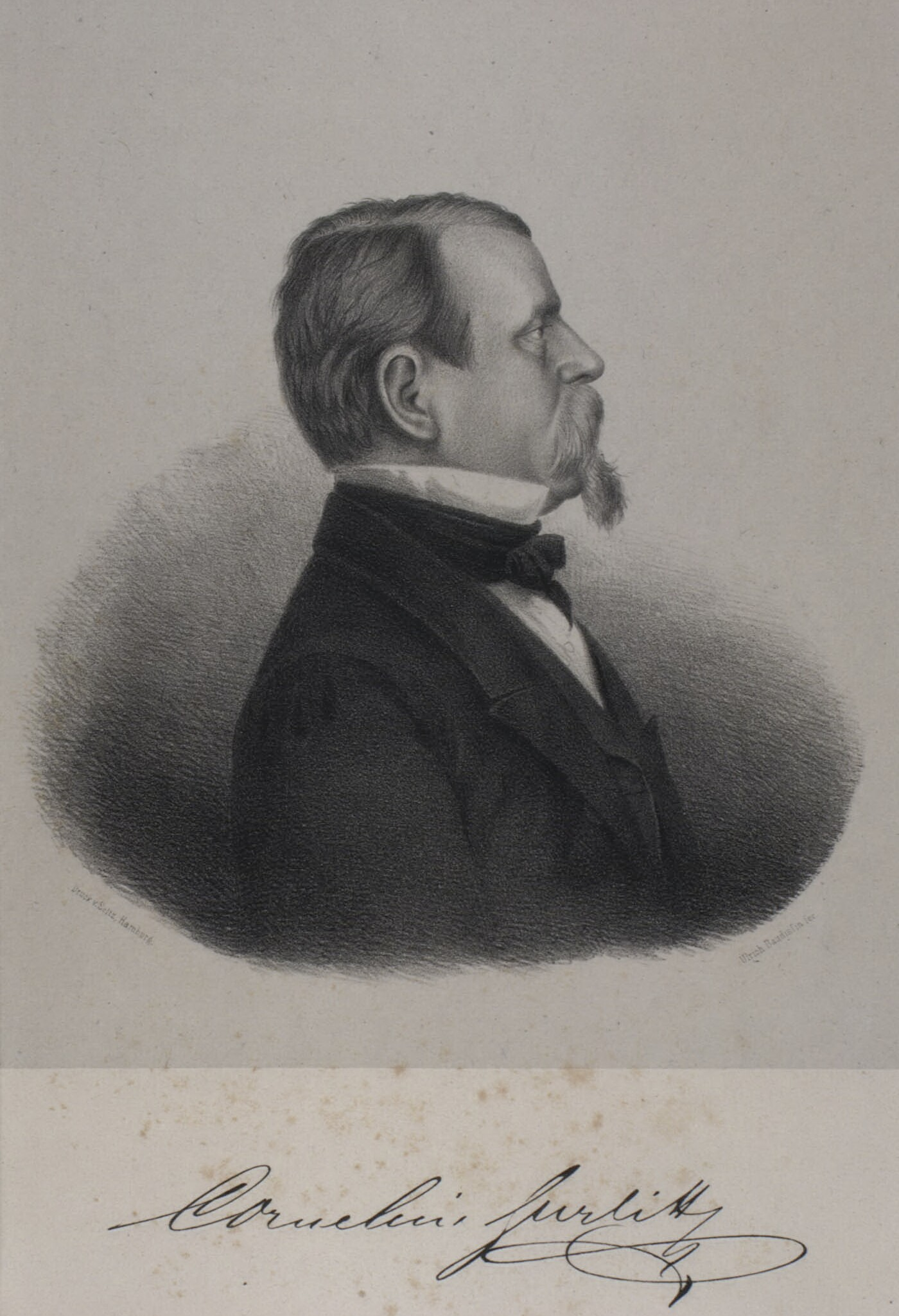 Cornelius Gurlitt, composer, born February 10, 1820 - death June 17, 1901